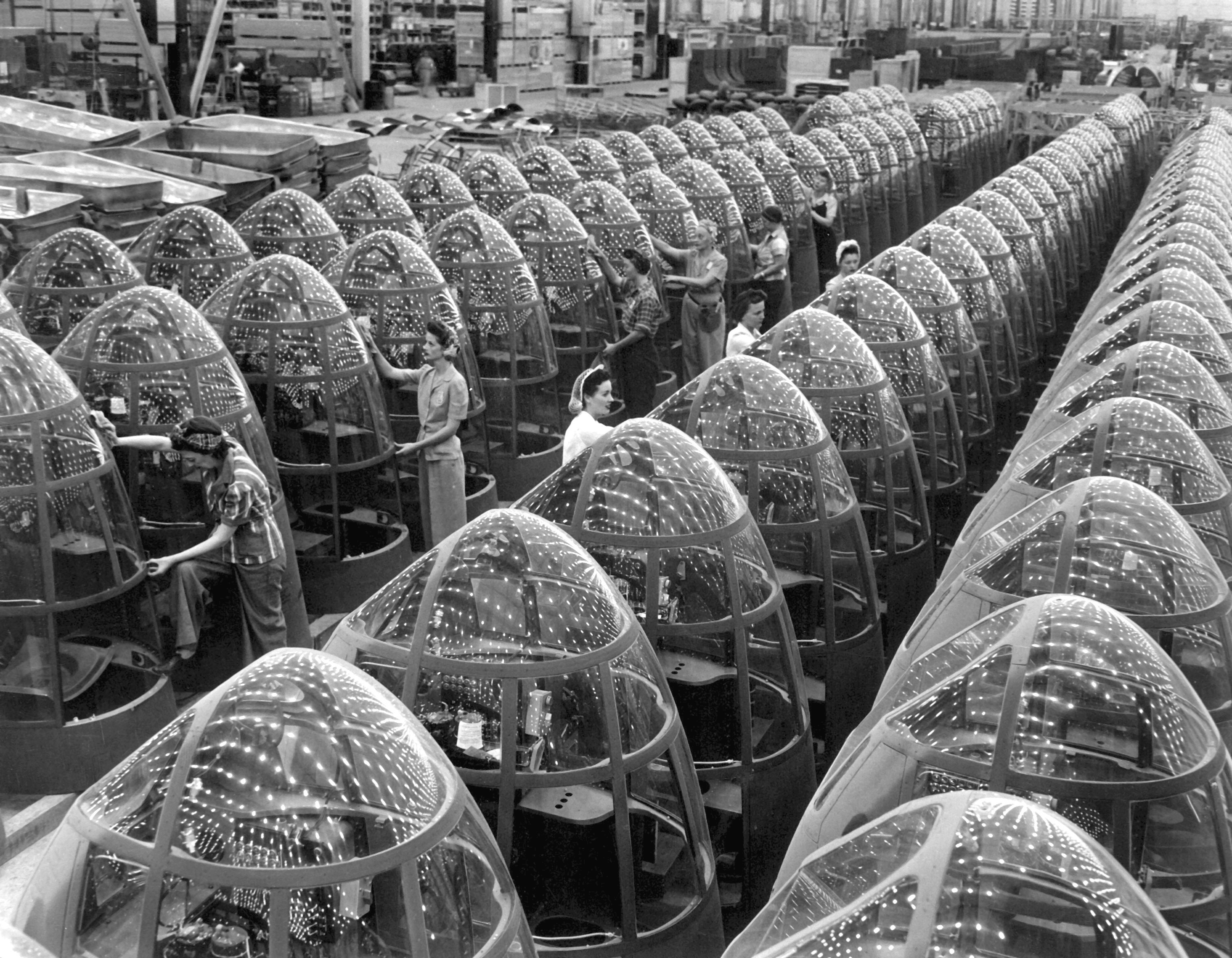 Stars over Berlin and Tokyo will soon replace these factory lights reflected in the noses of planes at Douglas Aircraft's Long Beach, Calif., plant. Women workers groom lines of transparent noses for deadly A-20 attack bombers. October 1942. Alfred Palmer. (OWI) Exact Date Shot Unknown NARA FILE #: 208-AA-352QQ-5 WAR & CONFLICT BOOK #: 802